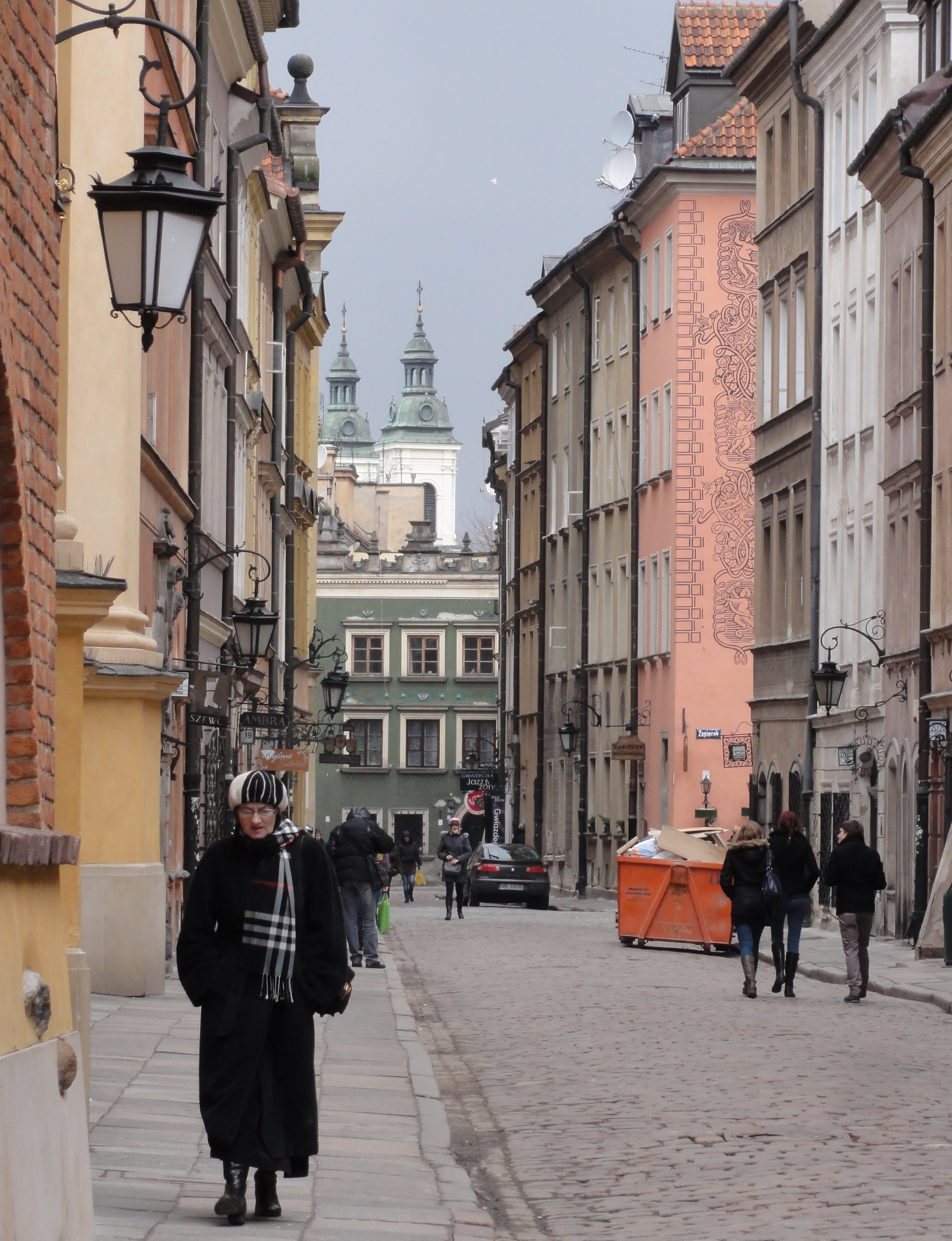 Read the story of this trip on !